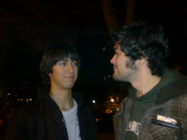 bla